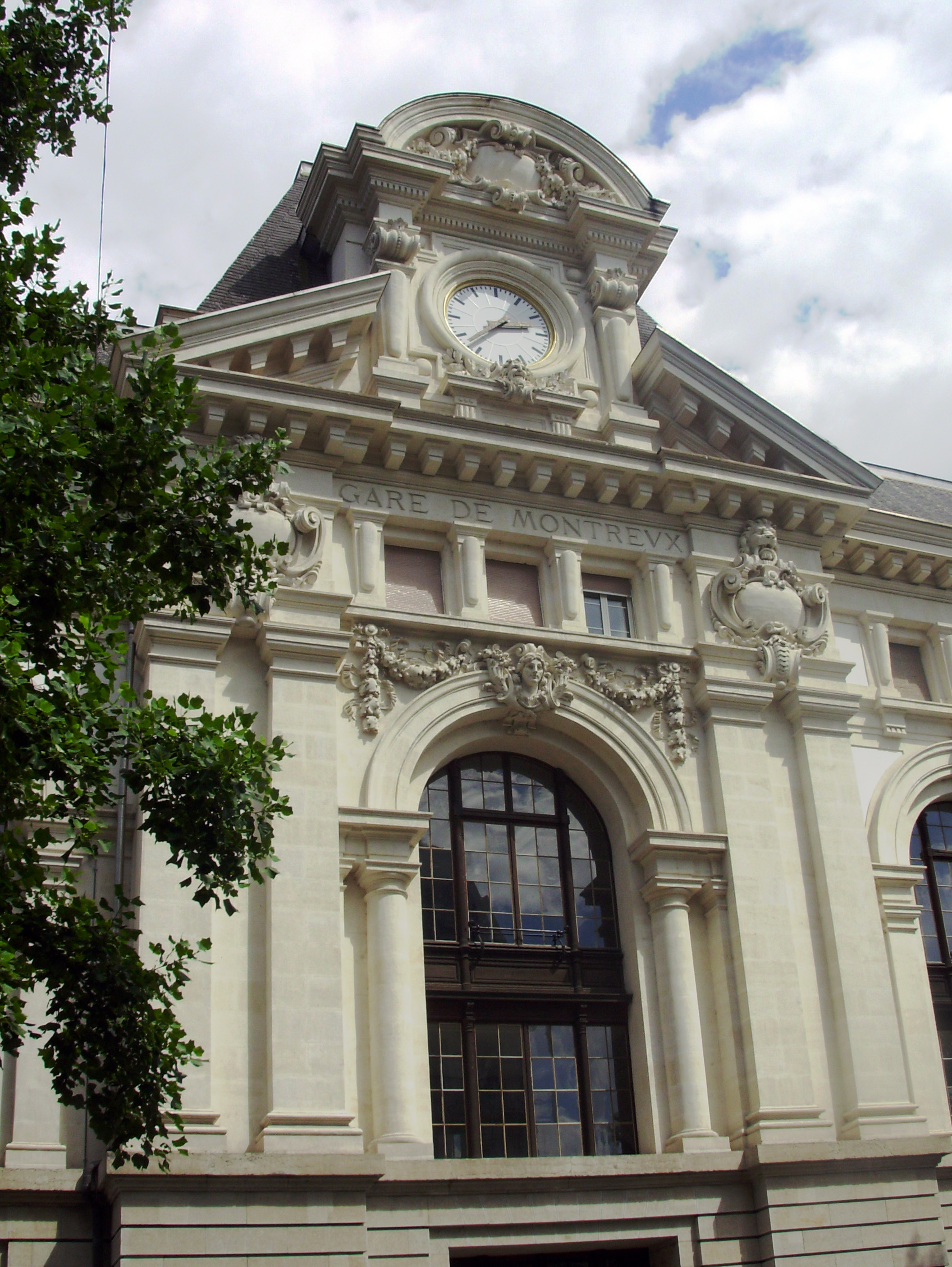 Montreux Railway Station, Switzerland